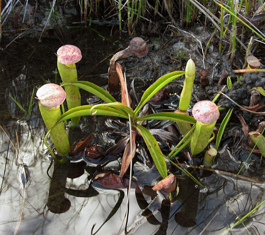 Nepenthes tenax young plant